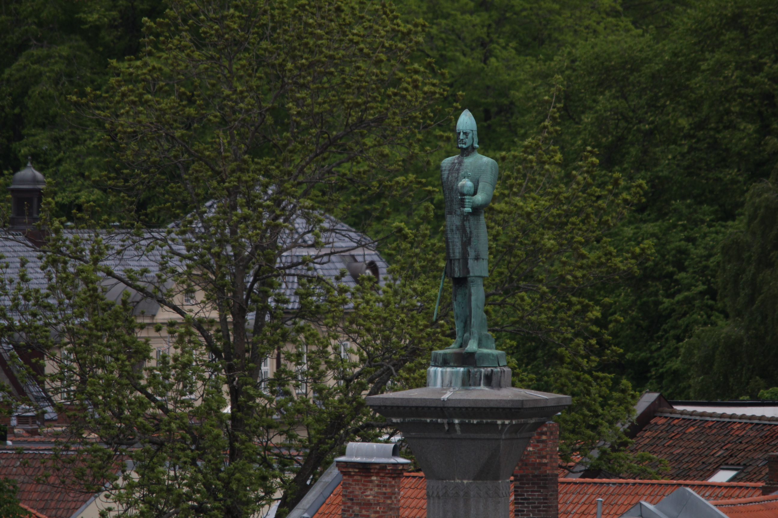 A statue of Olav Tryggvason, the founder of Trondheim, is located in the city's central plaza, mounted on top of an obelisk.